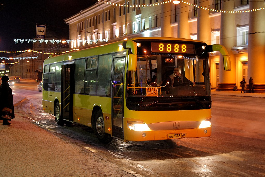 Zhong Tong LCK6103G-2 bus in Tomsk, Russia